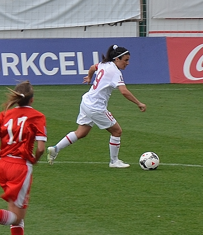 Bilgin Defterli for Turkey women's national football team in the home match against Belarus on September 17, 2014